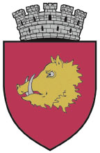 Coat of arms of the city of Roman, Neamţ County, Romania